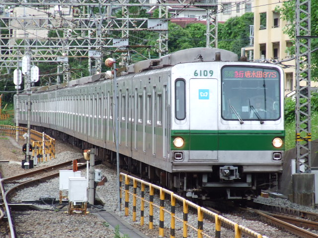 Tokyo Metro 6000 series EMU set 09 approaching Shin-Yurigaoka Station on the Odakyu Odawara Line